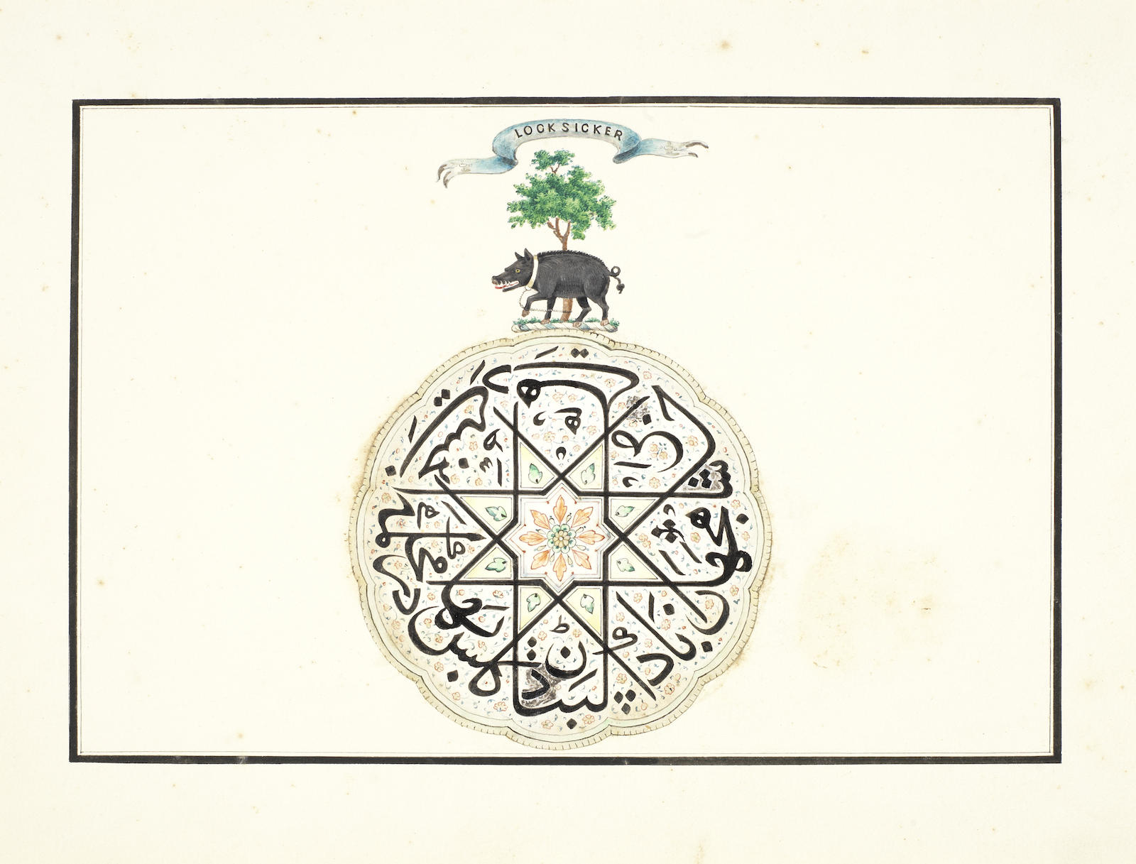 A stylised calligraphic composition surmounted by an English-style insignia with the name Locksicker. The roundel gives the name of Captain Douglas. This is apparently Sir Thomas Monteath Douglas (1787-1868). He entered the East India Company's Bengal Army in 1806; served in many campaigns between 1809 and 1826; Lt-Colonel in 1834; ADC to Queen Victoria; left India about 1845; added the name of Douglas to his own in 1851; KCB and General in 1865. (C. F. Buckland, Dictionary of Indian Biography, New York 1968, p. 122). The emblem of a boar before an oak tree is apparently that of Sir Edward Robert Pearce Edgecombe (1851-1929)? A series of 31 paintings by Ghulam Ali Khan (fl. 1817-55), consisting of views of monuments in and around Delhi, and including four portraits of the last Mughal Emperor Bahadur Shah II (reg. 1837-58) and his sons. Watercolour and gold on paper, black margin rules, three title pages, three sheets of portraits, all with identifying inscriptions in English and in Persian in nasta'liq script in black ink, the portraits with further inscriptions in nasta'liq script with the date November 1852 (Christian date written in Arabic), in later mounts, loose in contemporary green leather-covered despatch box, the lid embossed in gold DELHEE 1854. Size paintings 290 x 215 mm. and slightly smaller; mounts 318 x 394 mm.; box 435 x 365 x 110 mm.